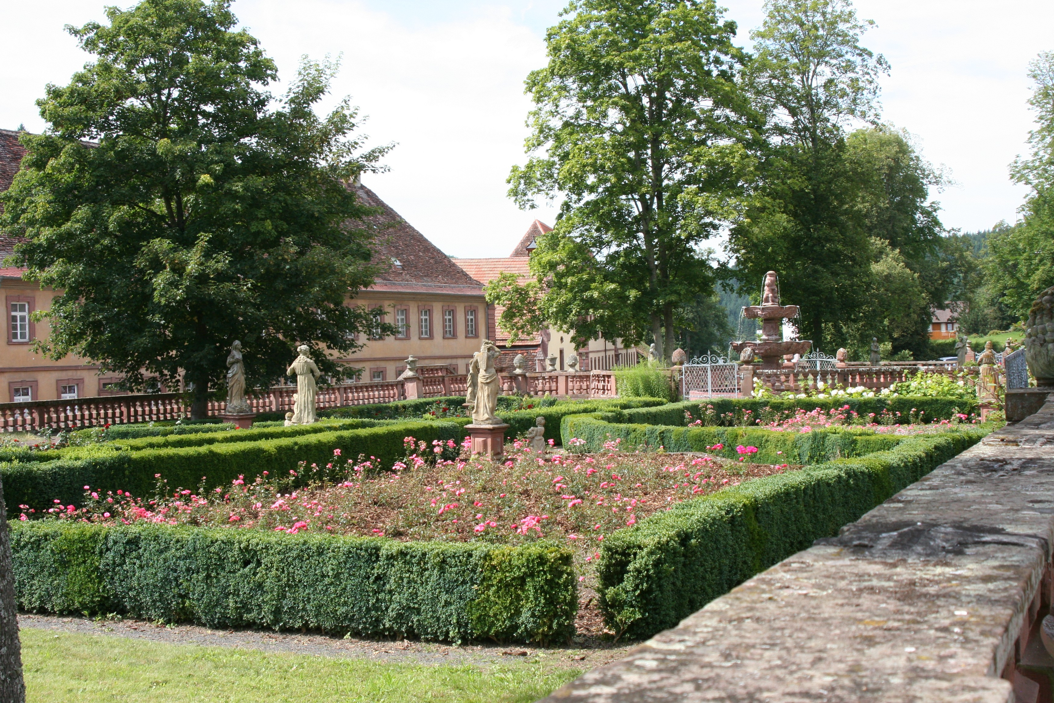 Bronnbach Abbey. Abbey garden